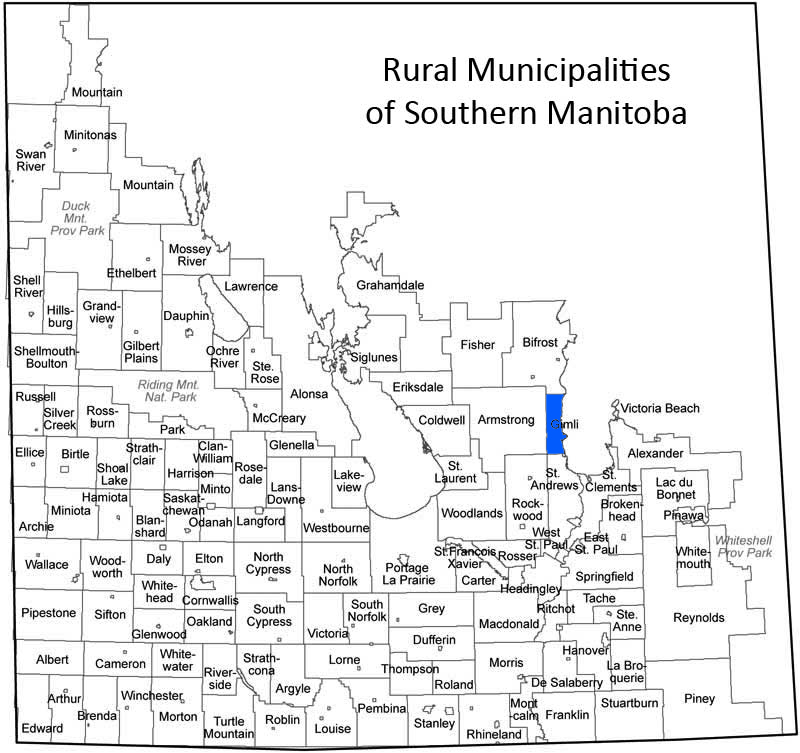 This is a map of the Rural Municipalities of Manitoba with the RM of Gimli highlighted in blue.